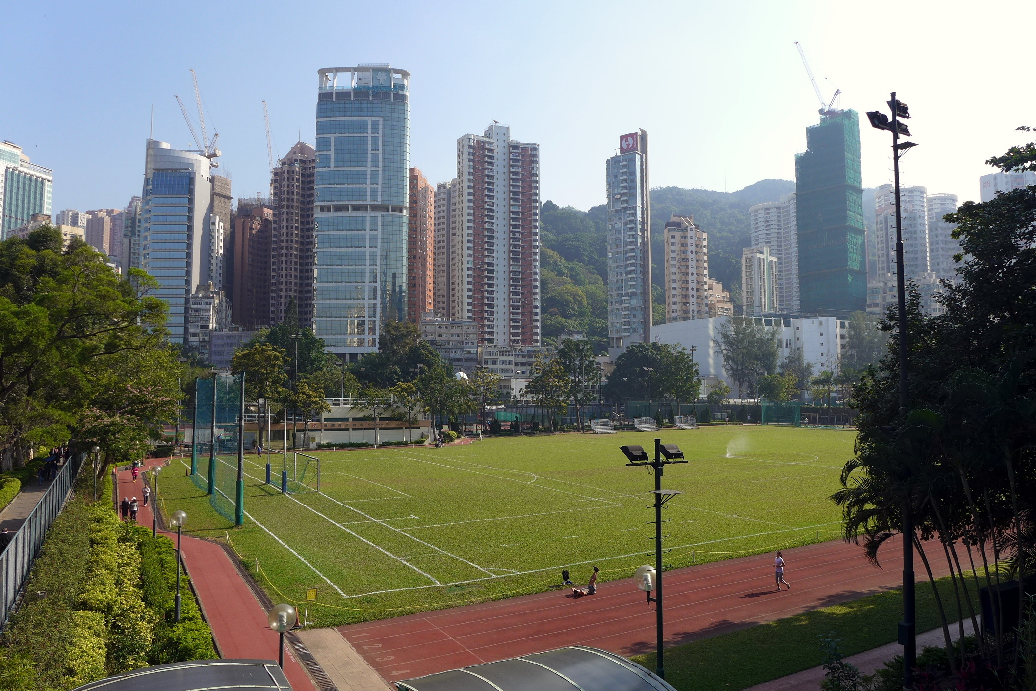 銅鑼灣運動場, Causeway Bay Sportsground